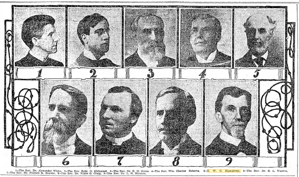 Imagefrom September 28, 1902 Louisville Courier-Journal. Shows Presbyterian leaders participating in the Presbyterian Centenary Jubilee celebration.